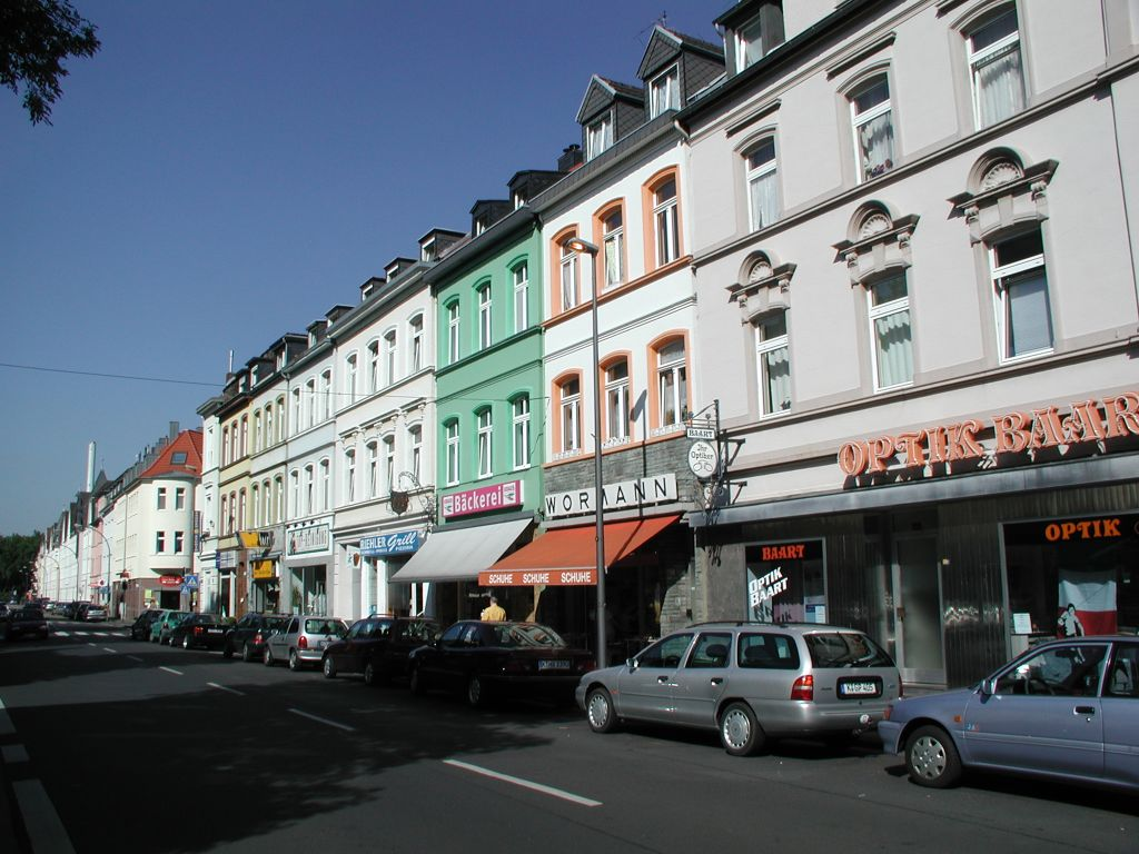 Street scene on Stammheimer Straße in Riehl, Cologne